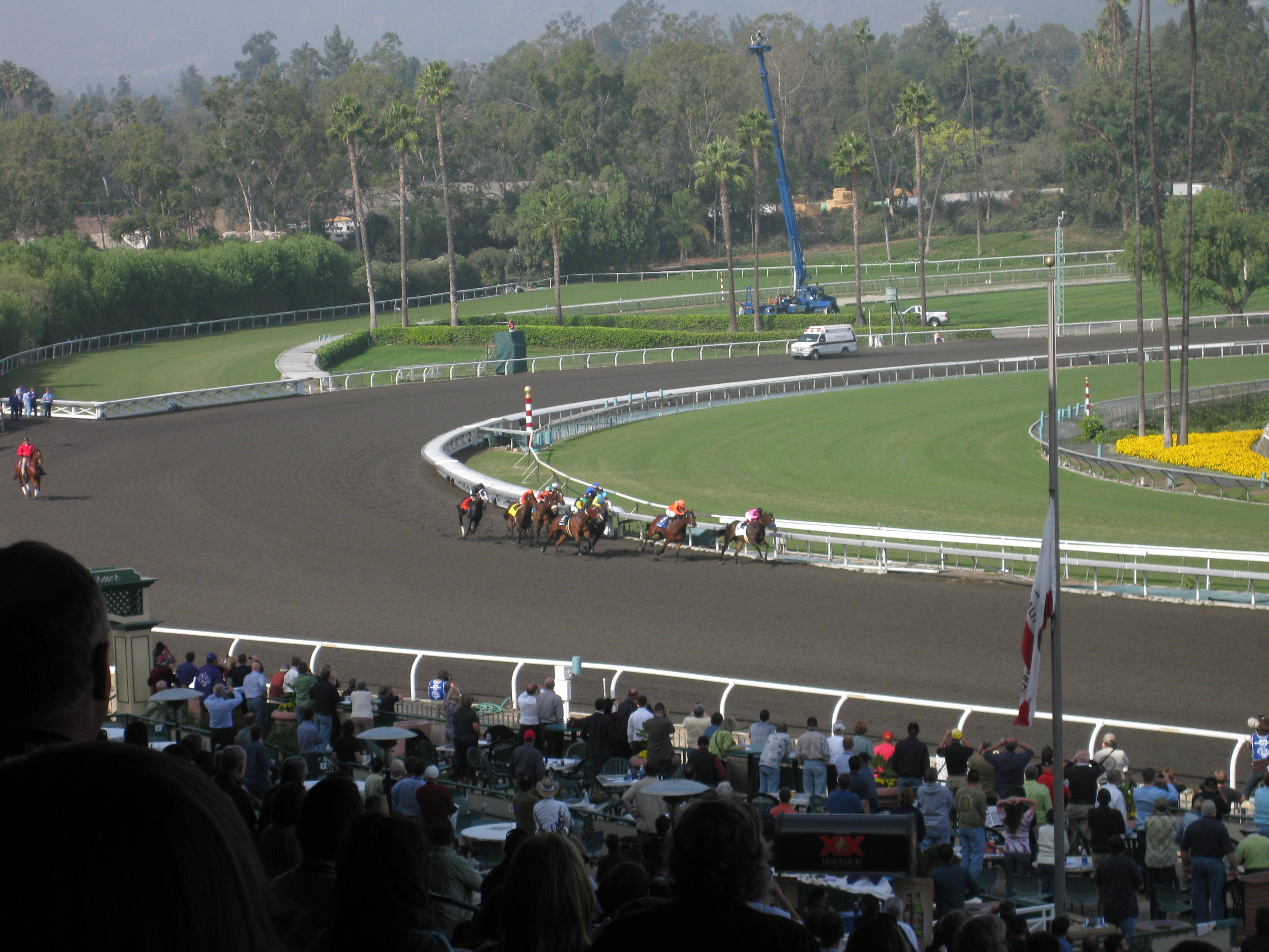 Breeders' Cup Dirt Mile 2009, the eventual winner is Dancing With Silks, the 6 horse (black saddle cloth) Effortlessly uploaded by Eye-Fi Breeders' Cup 2009